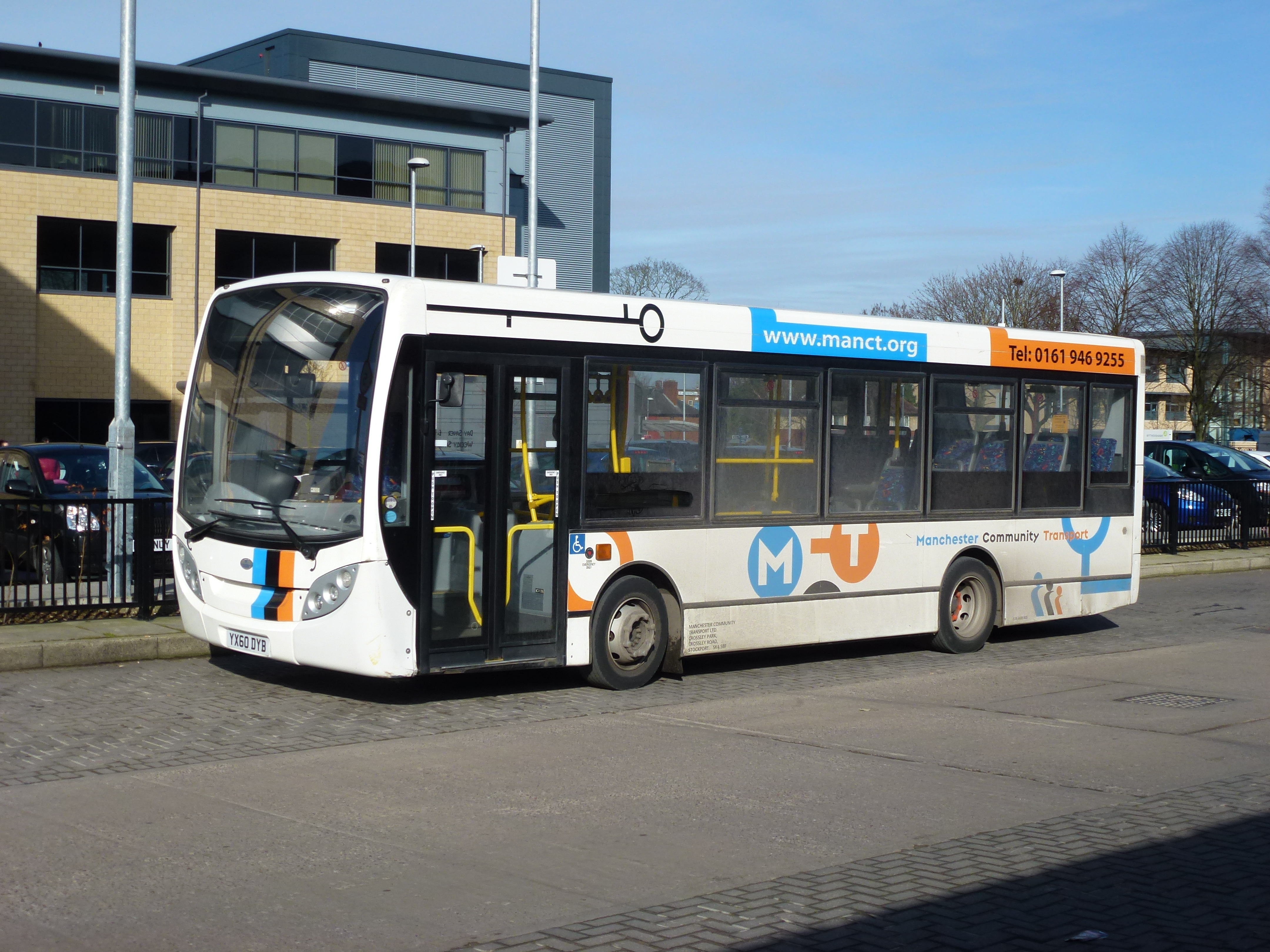 Alexander-bodied Dennis Dart Enviro 200, seen at Wythenshawe Bus Station on Saturday 16th February